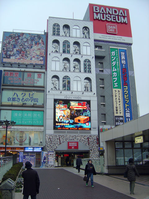 Picture of the Bandai Museum, Matsudo, Chiba, Japan